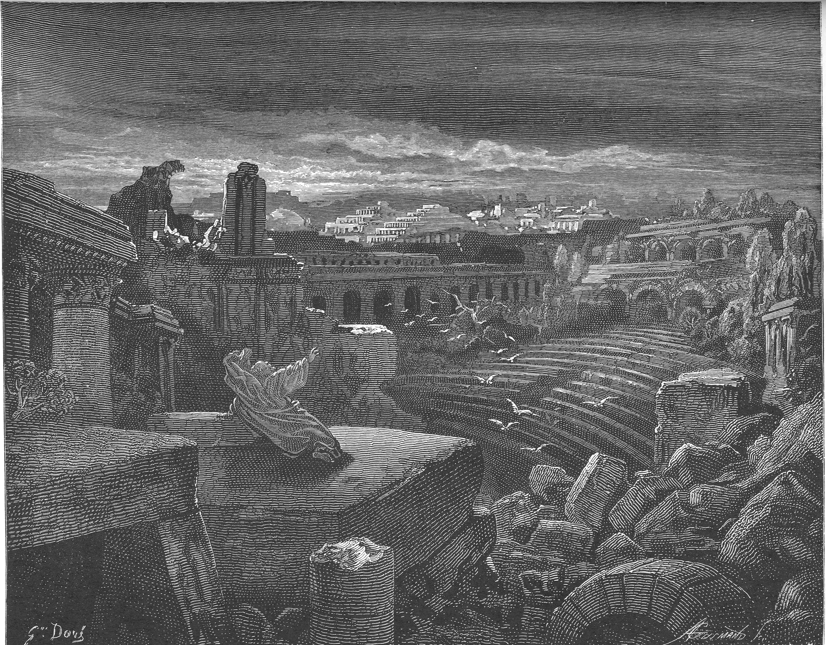 Isaiah's Vision of the Destruction of Babylon (Is. 13:1-22)